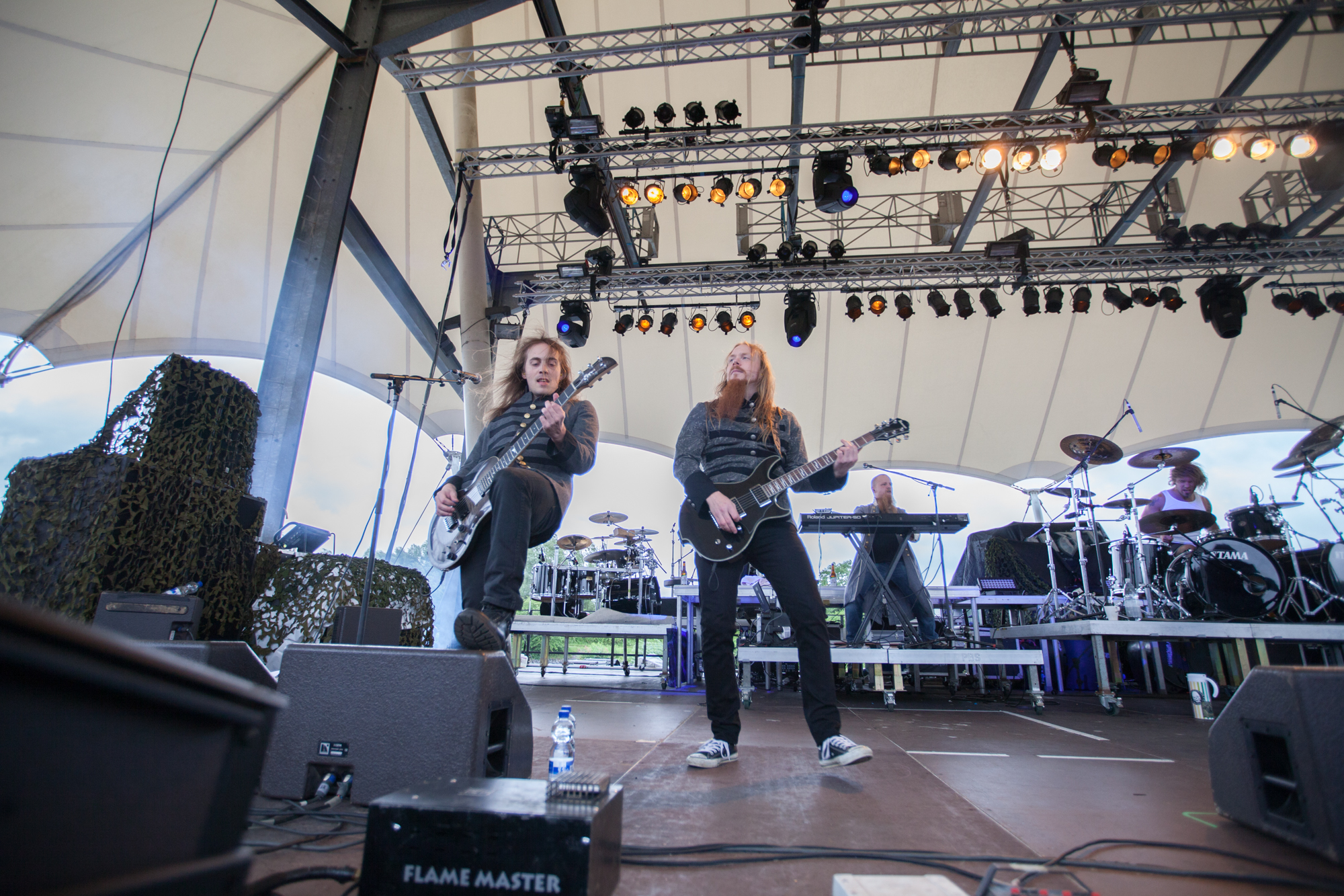 Civil War at Noch ein Bier Fest 2015 (Amphitheater, Gelsenkirchen, North-Rhine-Westphalia, Germany) on 25th July 2015